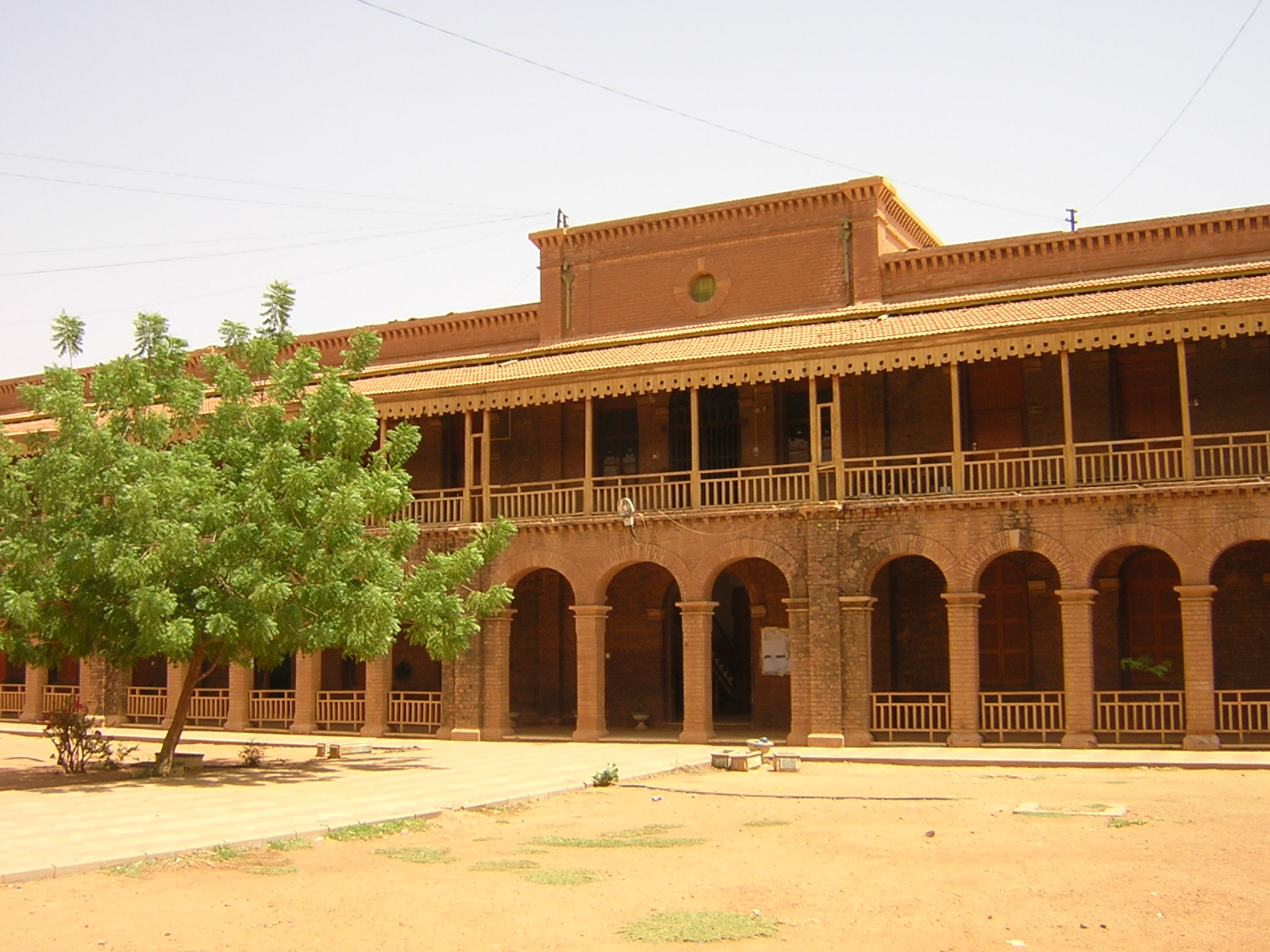 Administrative building of the University of Khartoum, Khartoum, Sudan.